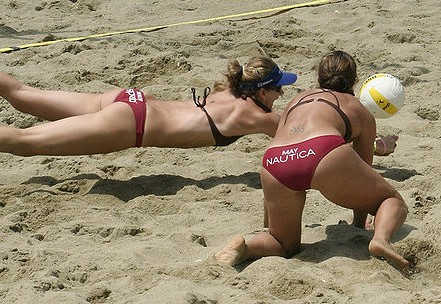 Beach volleyball is an increasingly popular sport.